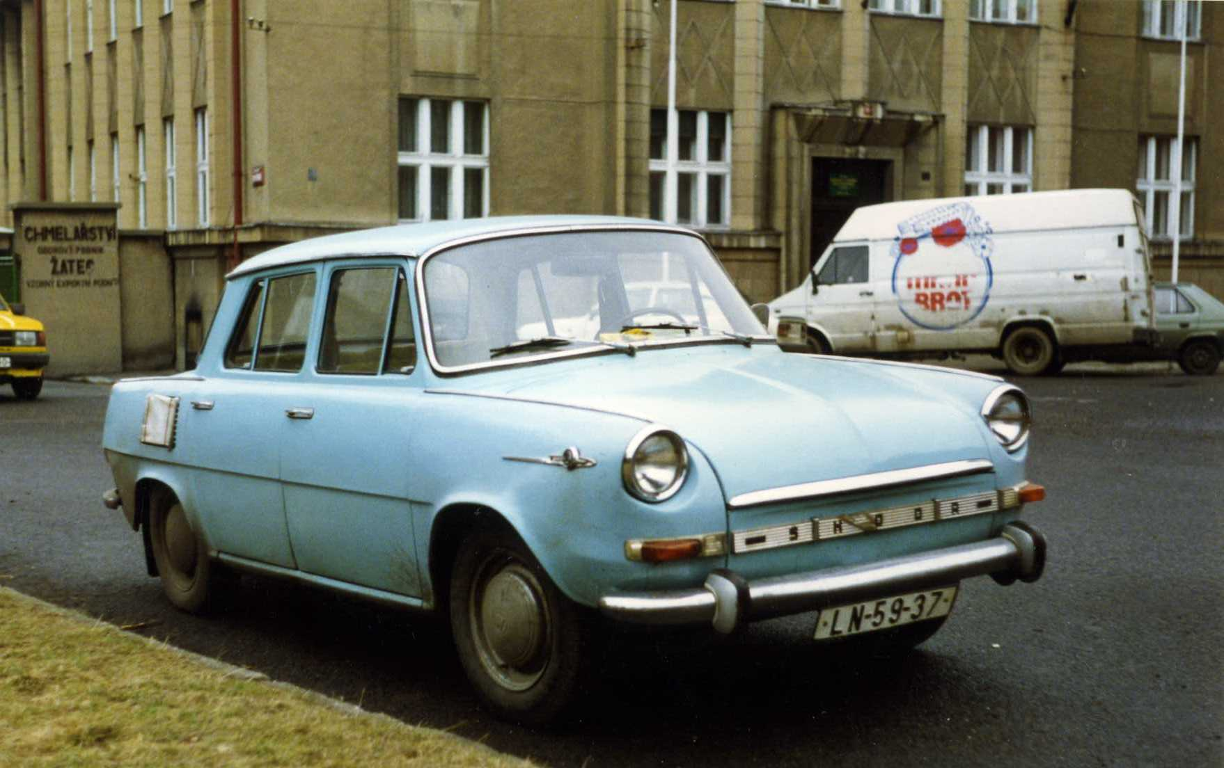 Škoda 1000MB, Czechoslovakia 1992